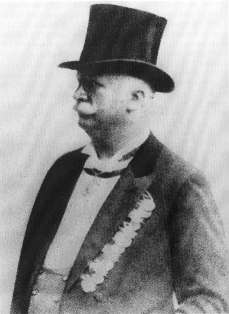 Albert Meyer, photographer of the Olympic Games 1896 in Athens. Self-portrait.